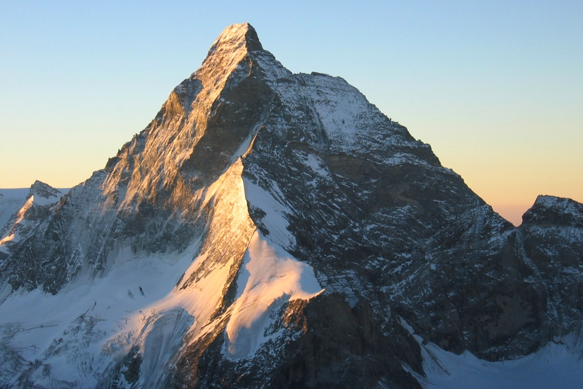 Matterhorn - Zmuttgrat